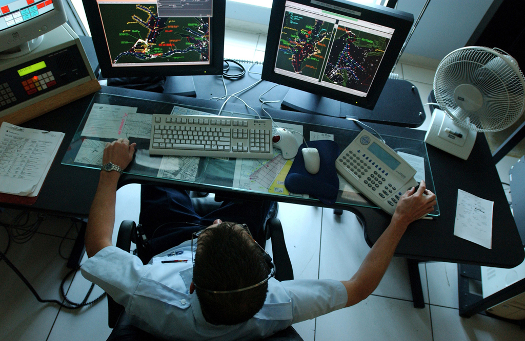 U.S. Coast Guard monitoring vessel traffic in New York Harbor